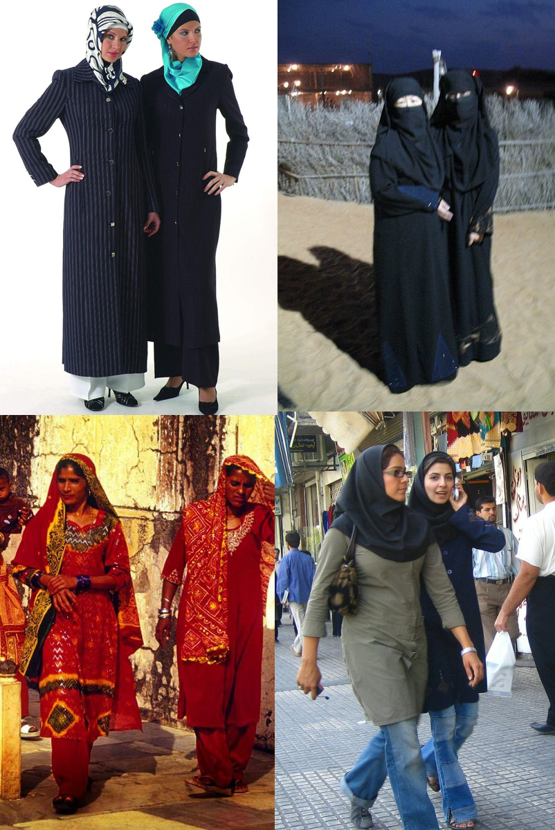 Examples of hijabs in different regions